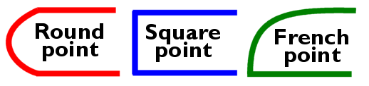 Straight razor Point Shapes